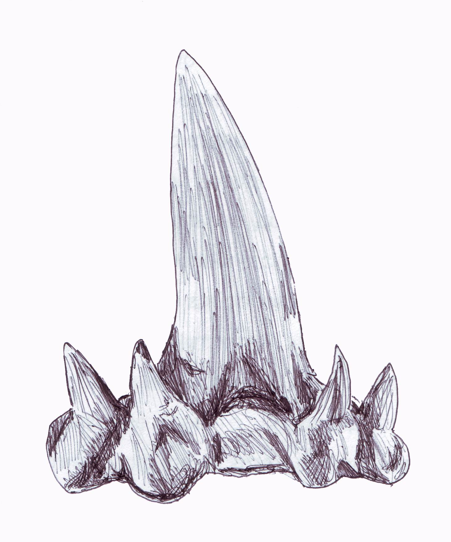 Cladodont tooth of Glikmanius occidentalis from the Carboniferous of North America and Russia. Based on a complete specimen from the region of Moscow.